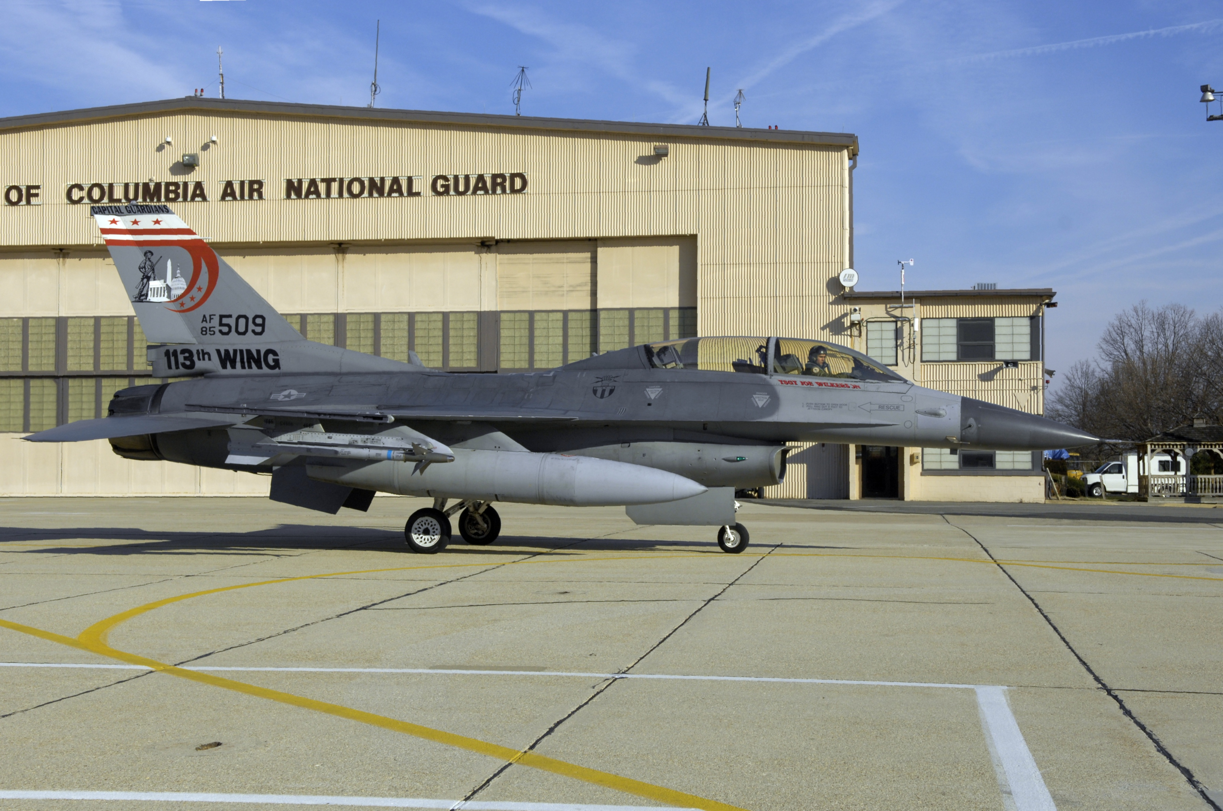 A U.S. Air Force General Dynamics F-16D Block 30 Fighting Falcon (s/n 85-1509) from the 121st Fighter Squadron, 113th Wing, District of Columbia Air National Guard at Andrews Air Force Base, Maryland (USA) on 16 January 2008.